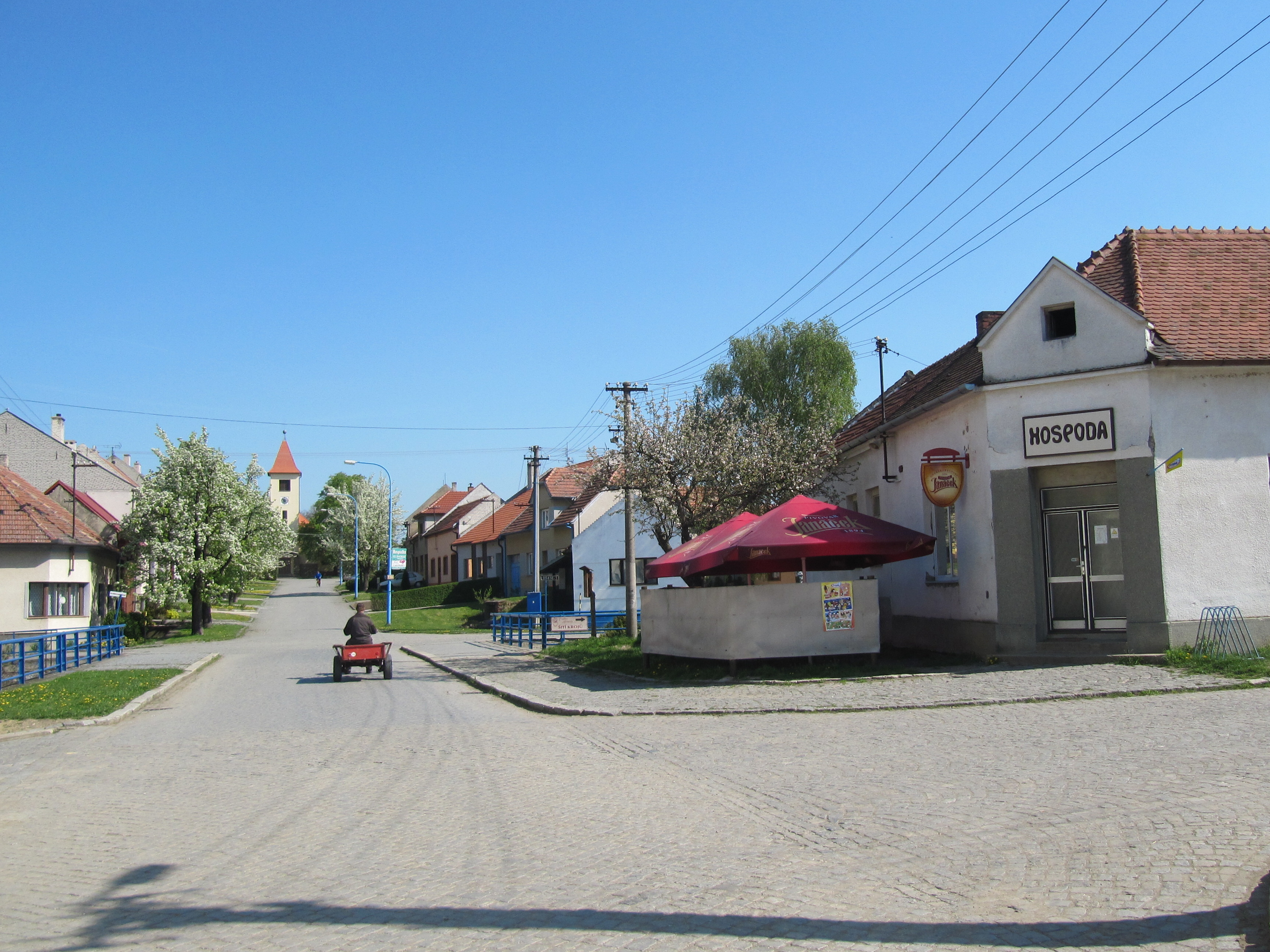 Blatnička in Hodonín District, Czech Republic. Center of the village.